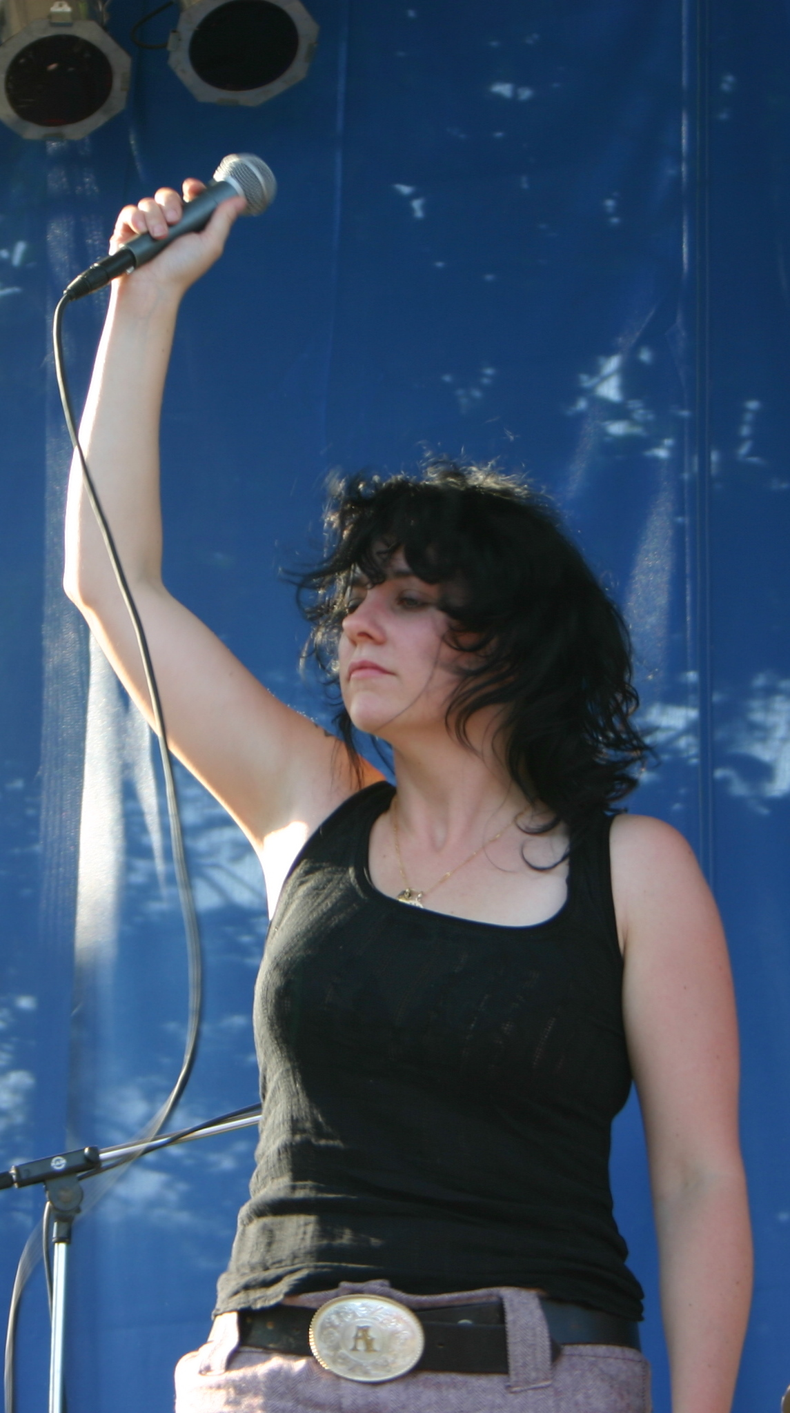 Amy Millan performing with Broken Social Scene at the Intonation Festival, 2005.